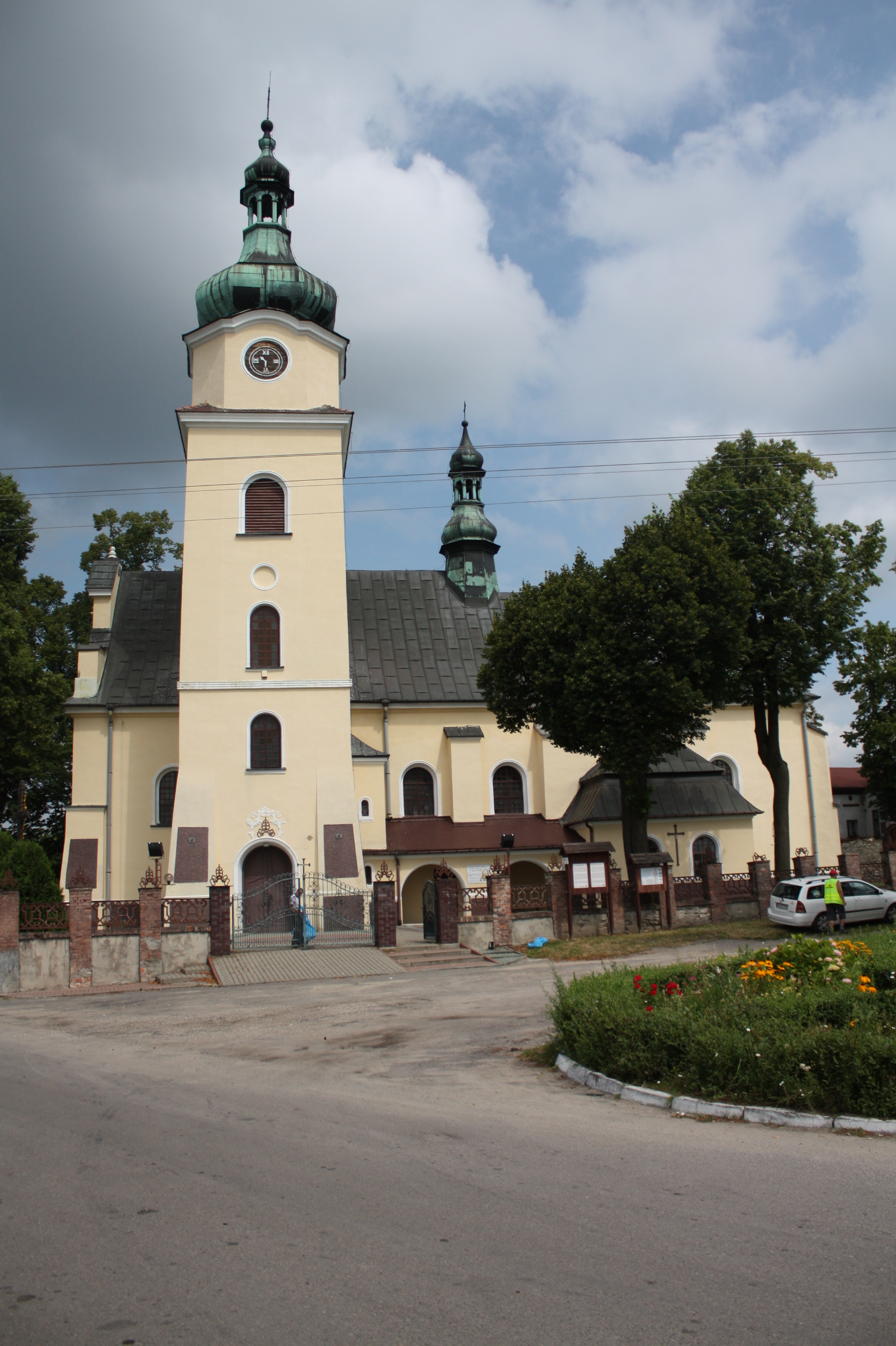 St. Nikolaus Church in Przybynów